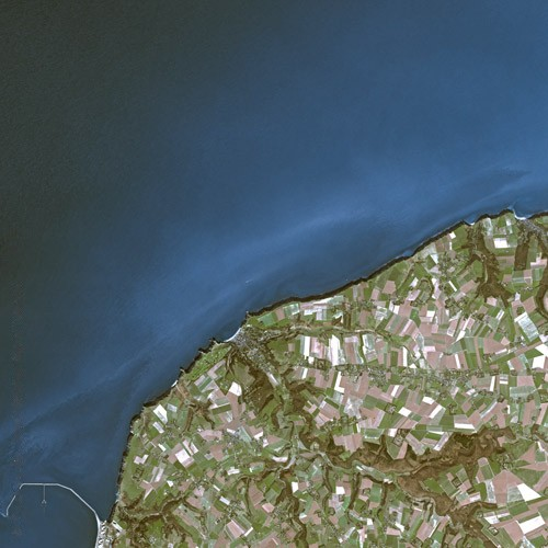 Etretat by SPOT Satellite